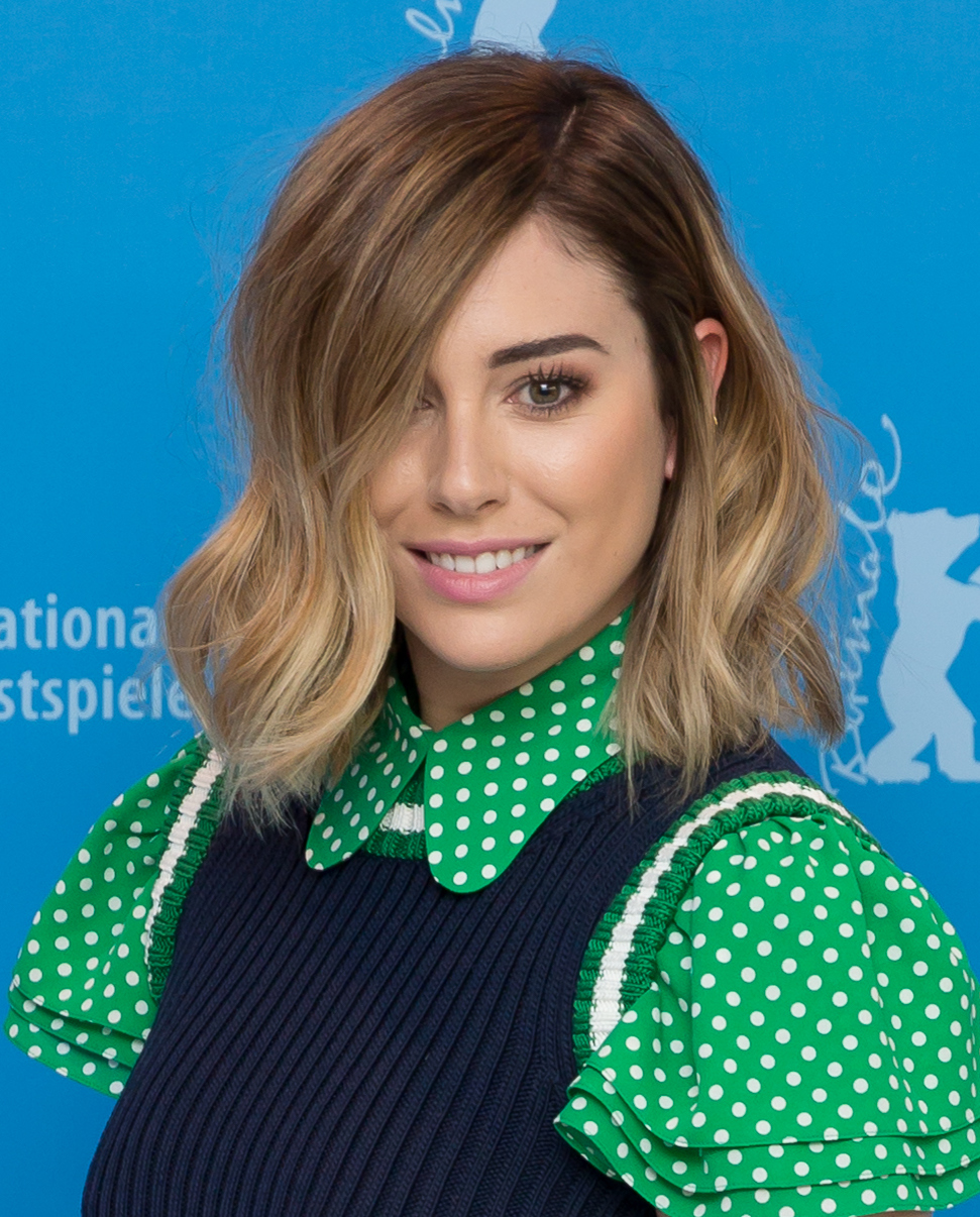 The actress Blanca Suárez presenting the movie The Bar at the Berlinale 2017